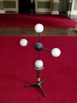 Molecular model of methane, created by August Wilhelm von Hofmann (ca. 1860). The square planar structure depicted is now known to be incorrect.